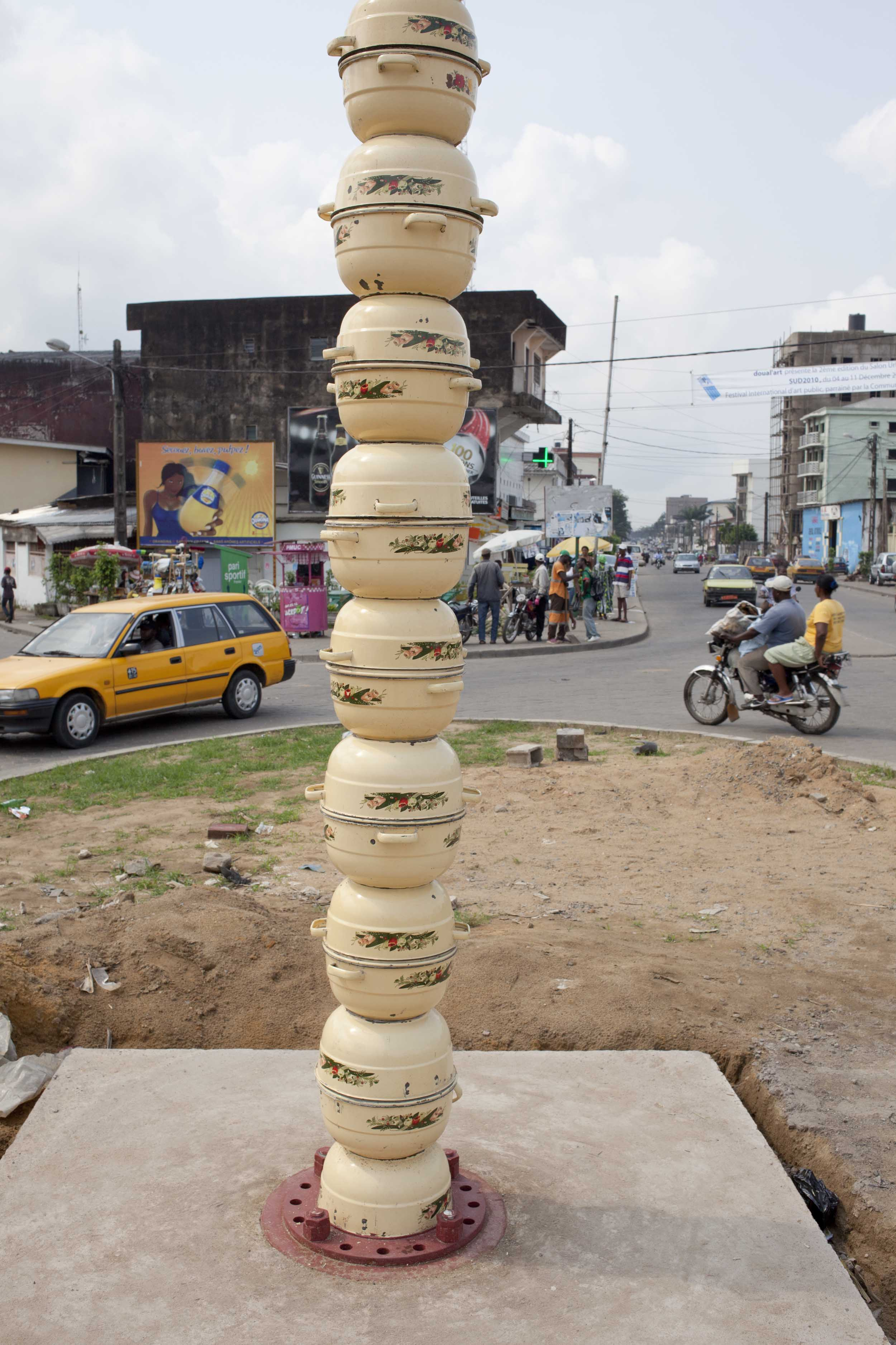 SUD-Salon Urbain de Douala - Pascale Marthine Tayou Public monumental sculpture commissioned in the frame of SUD Salon Urbain de Douala.